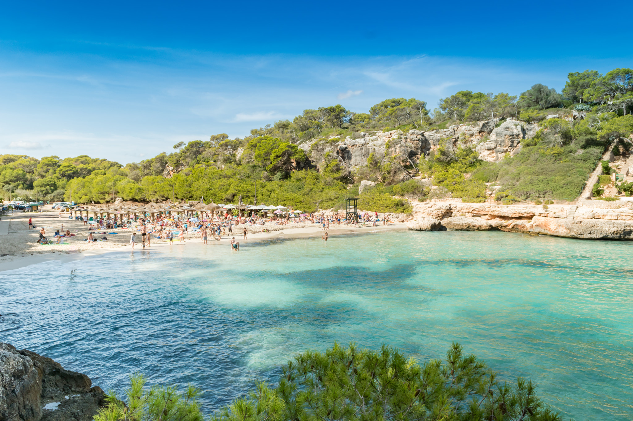 500px provided description: Mallorca Schönste Strände Cala S Amarador [#landscape ,#beach ,#travel ,#island ,#summer ,#nikon ,#mallorca ,#party ,#holiday ,#sommer ,#natur ,#es ,#strand ,#urlaub ,#spanien ,#insel ,#arenal ,#reise ,#ferien ,#cala ,#geotagged ,#wanderlust ,#arta ,#platja ,#malle ,#balearen ,#strandurlaub ,#str?nde ,#illesbalears ,#sch?nste ,#santany? ,#allgemein ,#travelblogger ,#l?nderst?dte ,#sarenal ,#samarador ,#sch?nstestr?nde ,#calasamarador]